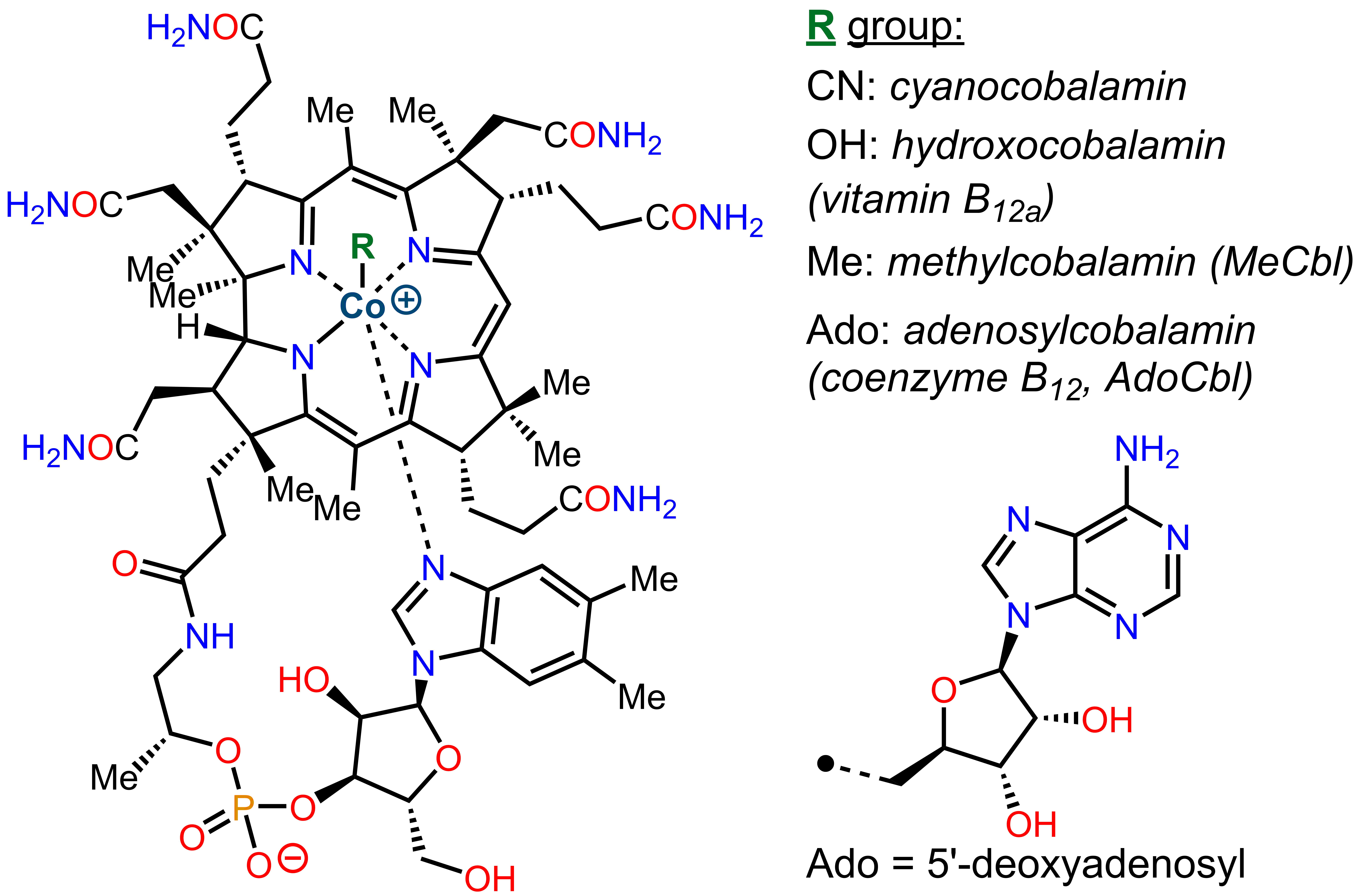 structures of the vitamers, along with some terminology